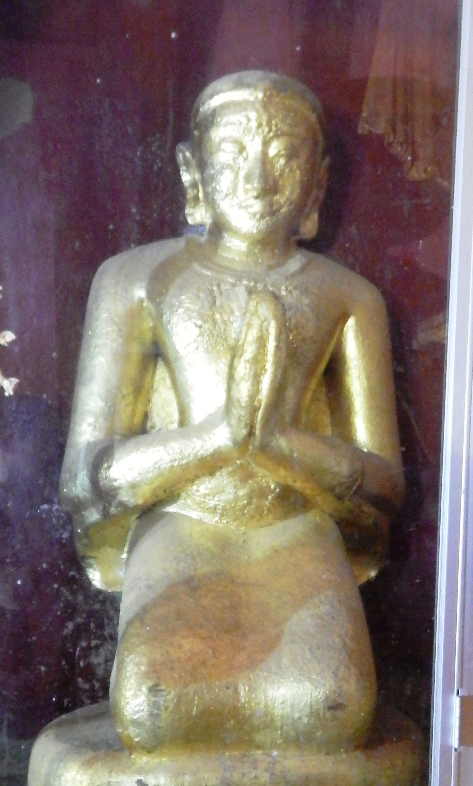 Statue of Shin Arahan at Ananda Temple, Bagan, Myanmar